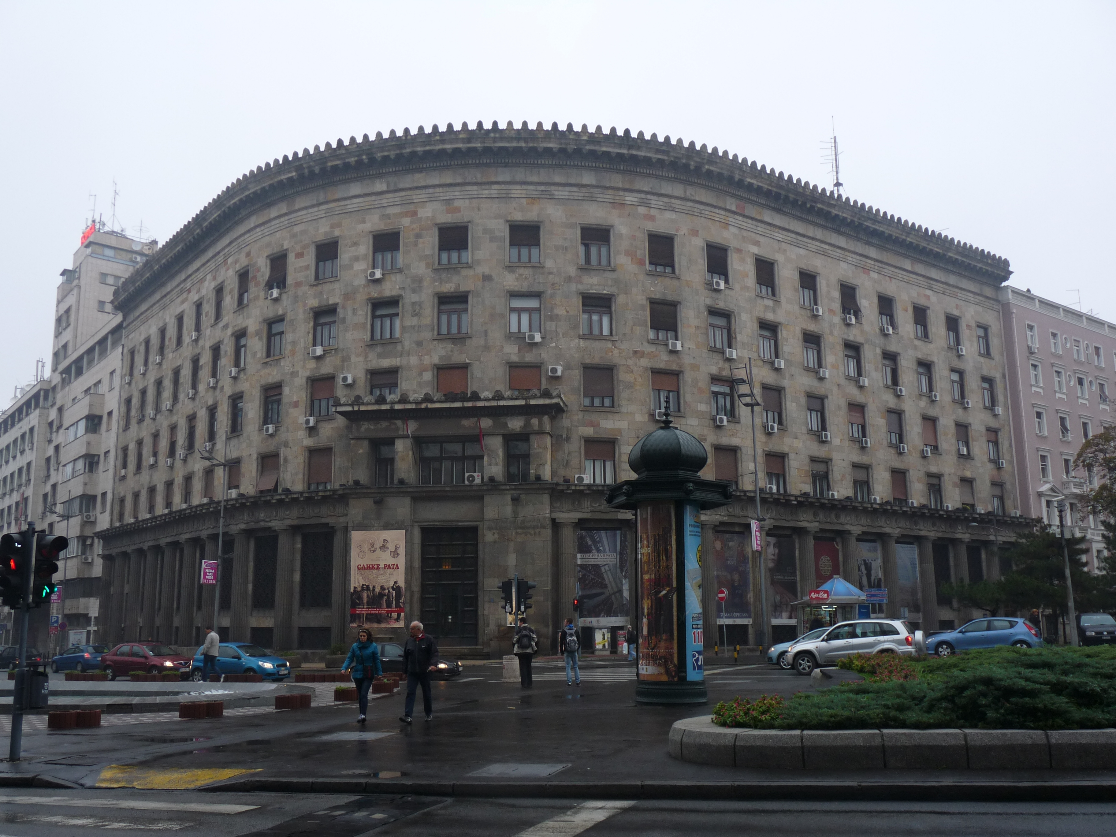 Historical museum of Yugoslavia on the corner of Dečanska and Vlajkovičeva Streets in Beograd, October 13, 2012